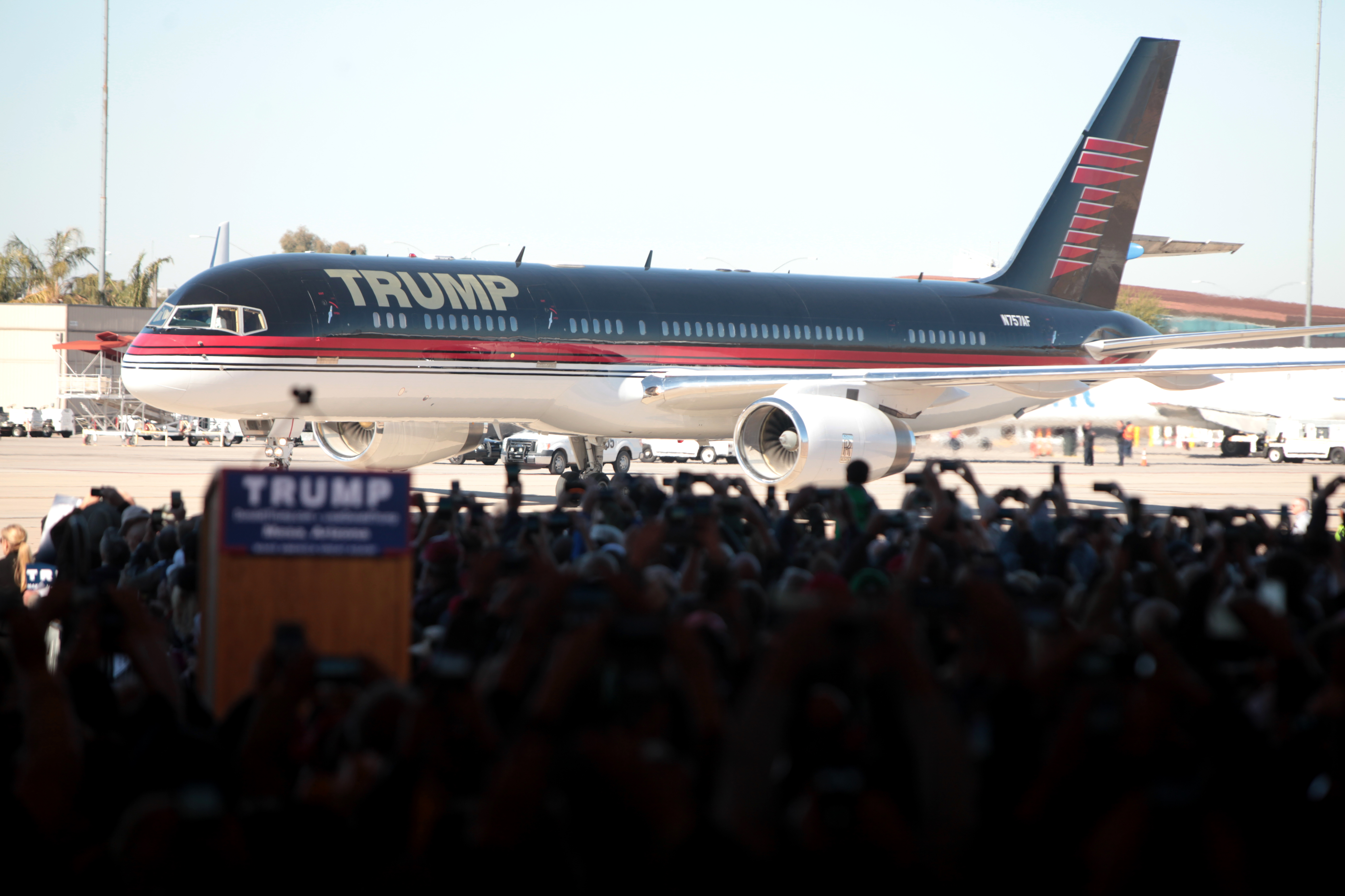 Donald Trump's plane arriving at a hangar at Mesa Gateway Airport in Mesa, Arizona.